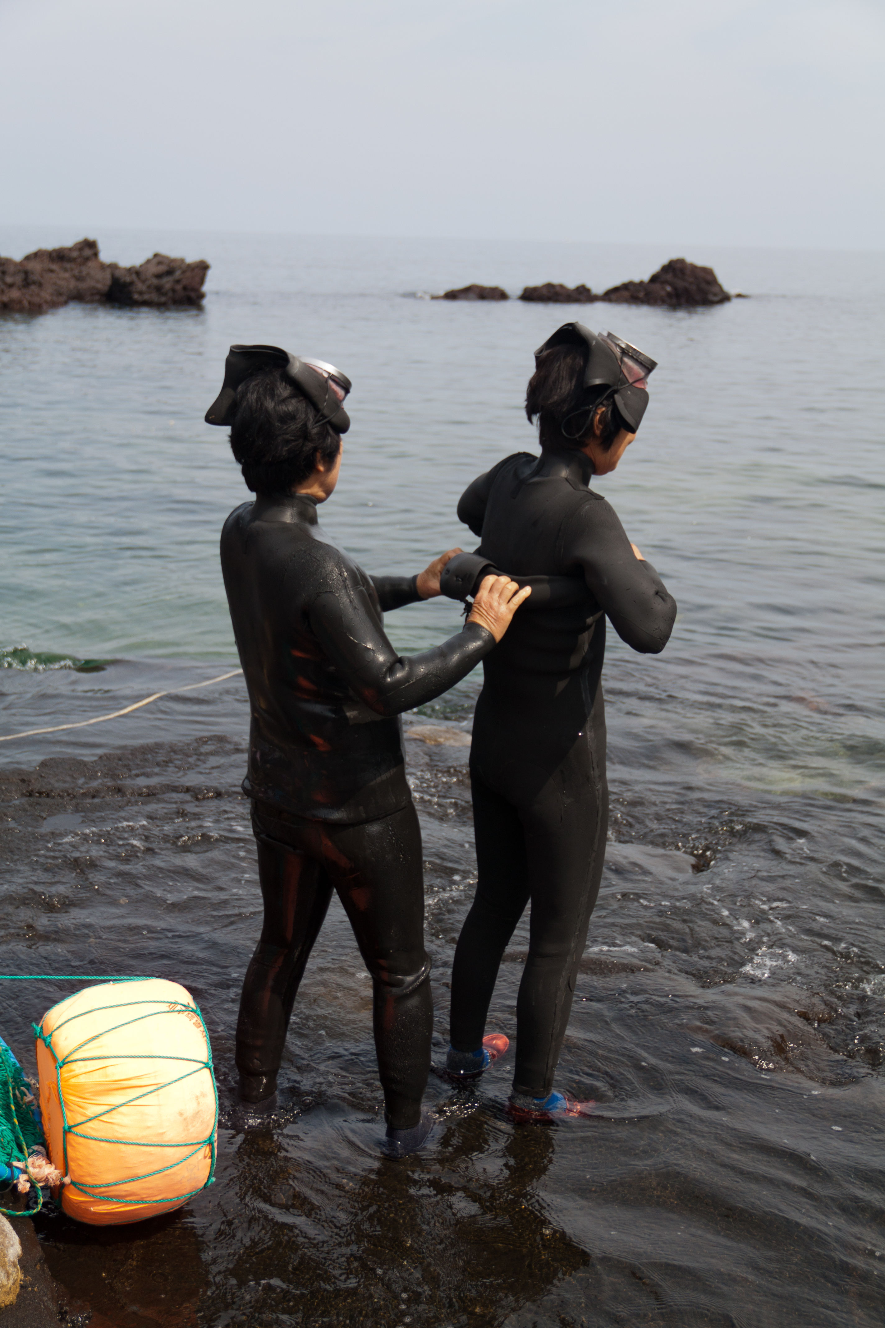 Hanyeo women, Jeju